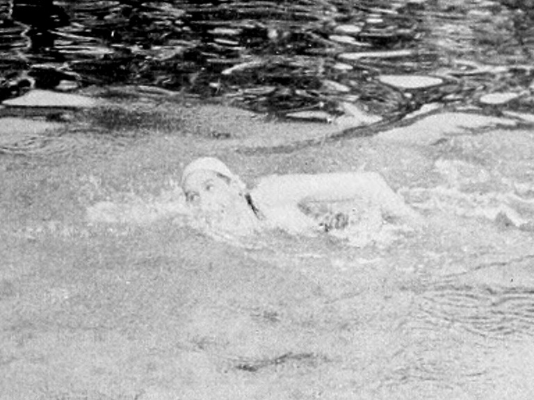 George Hodgson on the way to win the gold medal in the 1500 metre freestyle swimming competition at the 1912 Summer Olympics